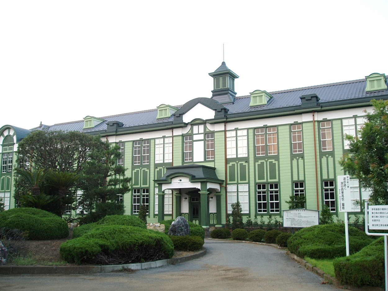 Memorial Hall (former main building) of Fukaya Commercial High School located in Fukaya, Saitama, Japan. Built in 1922, a registered tangible cultural property of Japan (#11-0024).